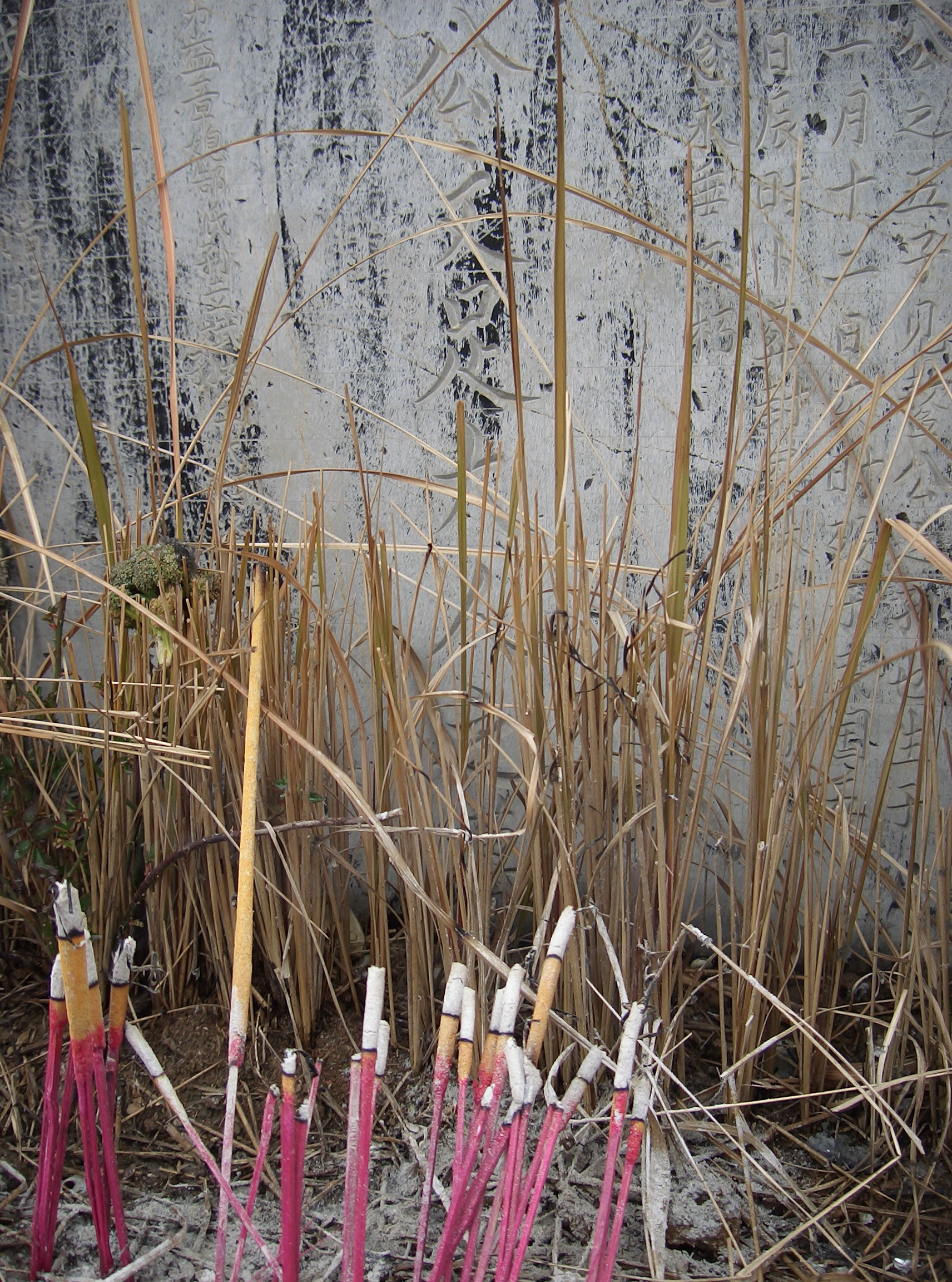 At Chinese New Year, one of the customs is to burn incense at the graves of ancestors. This grave is at Qichun village, Hubei province, China.